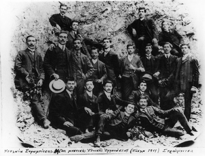 Strumitsa Greek Revolutionary Committee